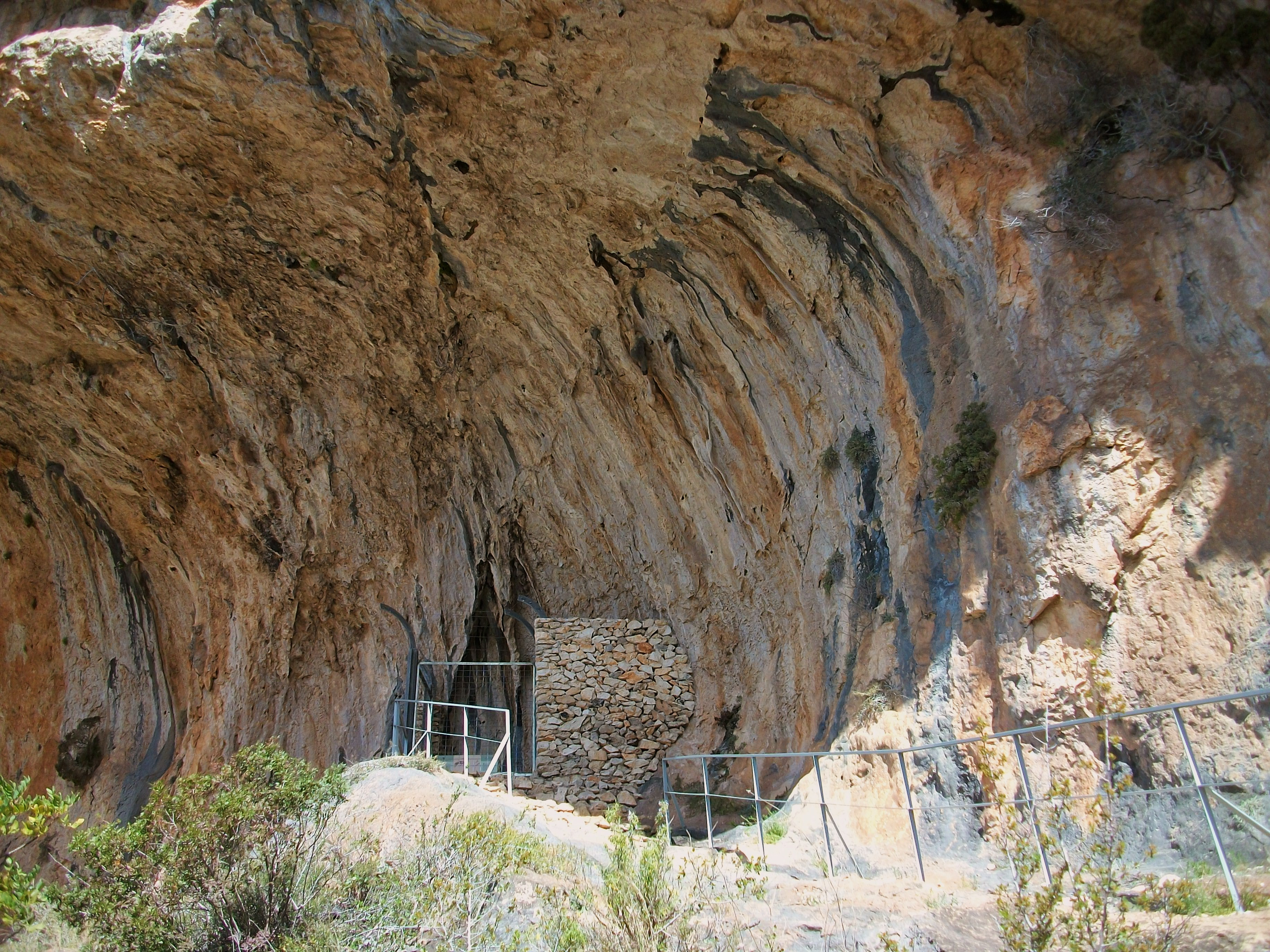 Rock shelter with Levantine art, Pla de Petracos, Castell de Castells, Alicante Province, Spain.